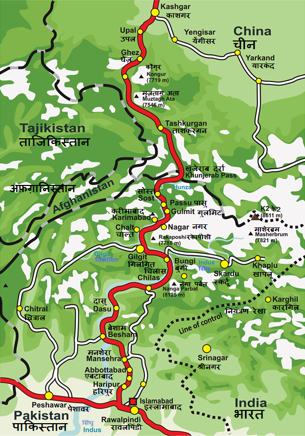 This is a map of Karakoram Highway, the road that links the Northern Areas of Pakistan to the Xinjiang province of China, connecting it to the old Silk Road.